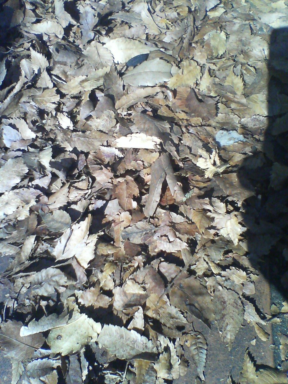 fallen leaves, autumn, Japan.